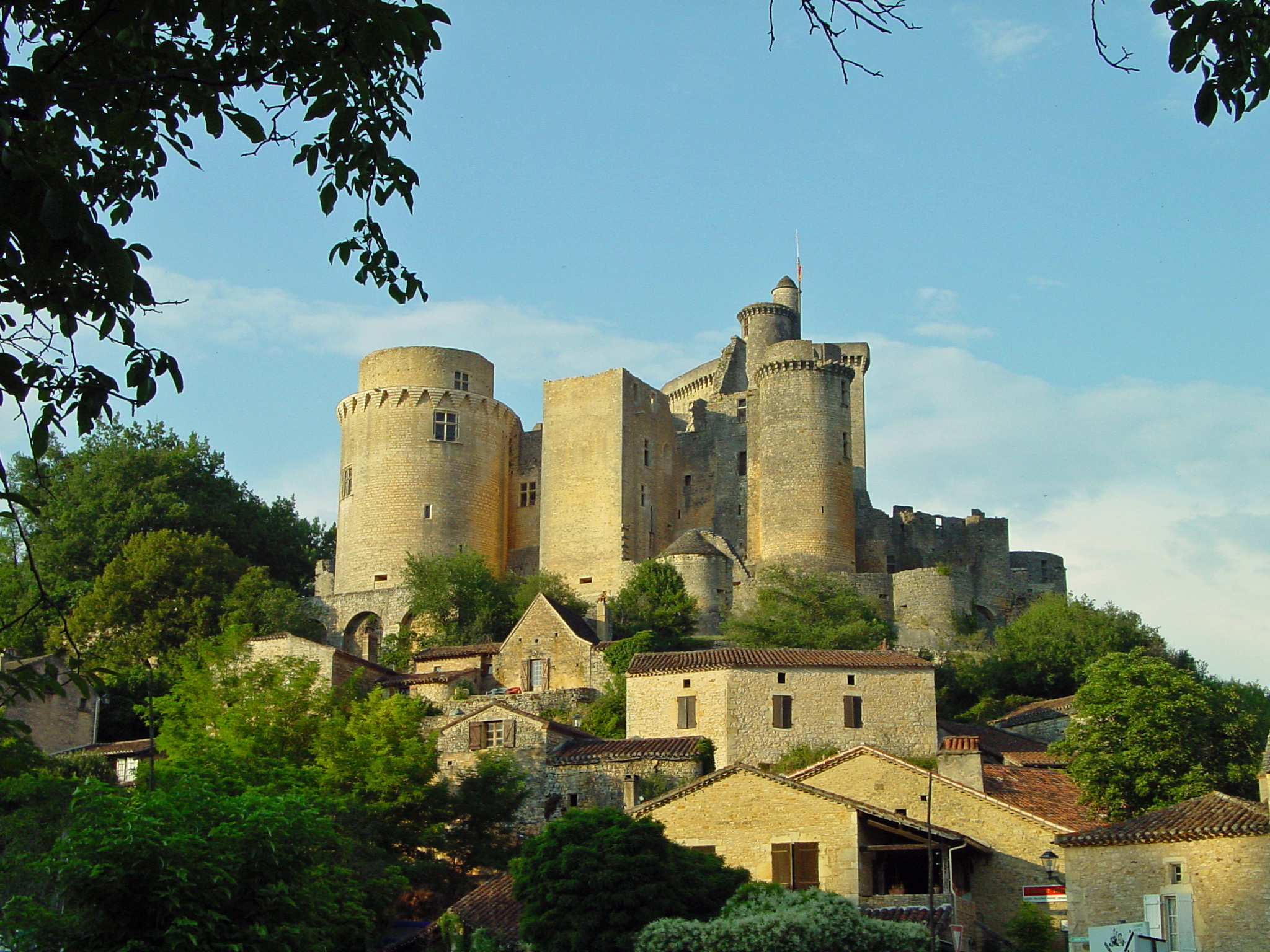 Château at Bonaguil in Dordogne, France